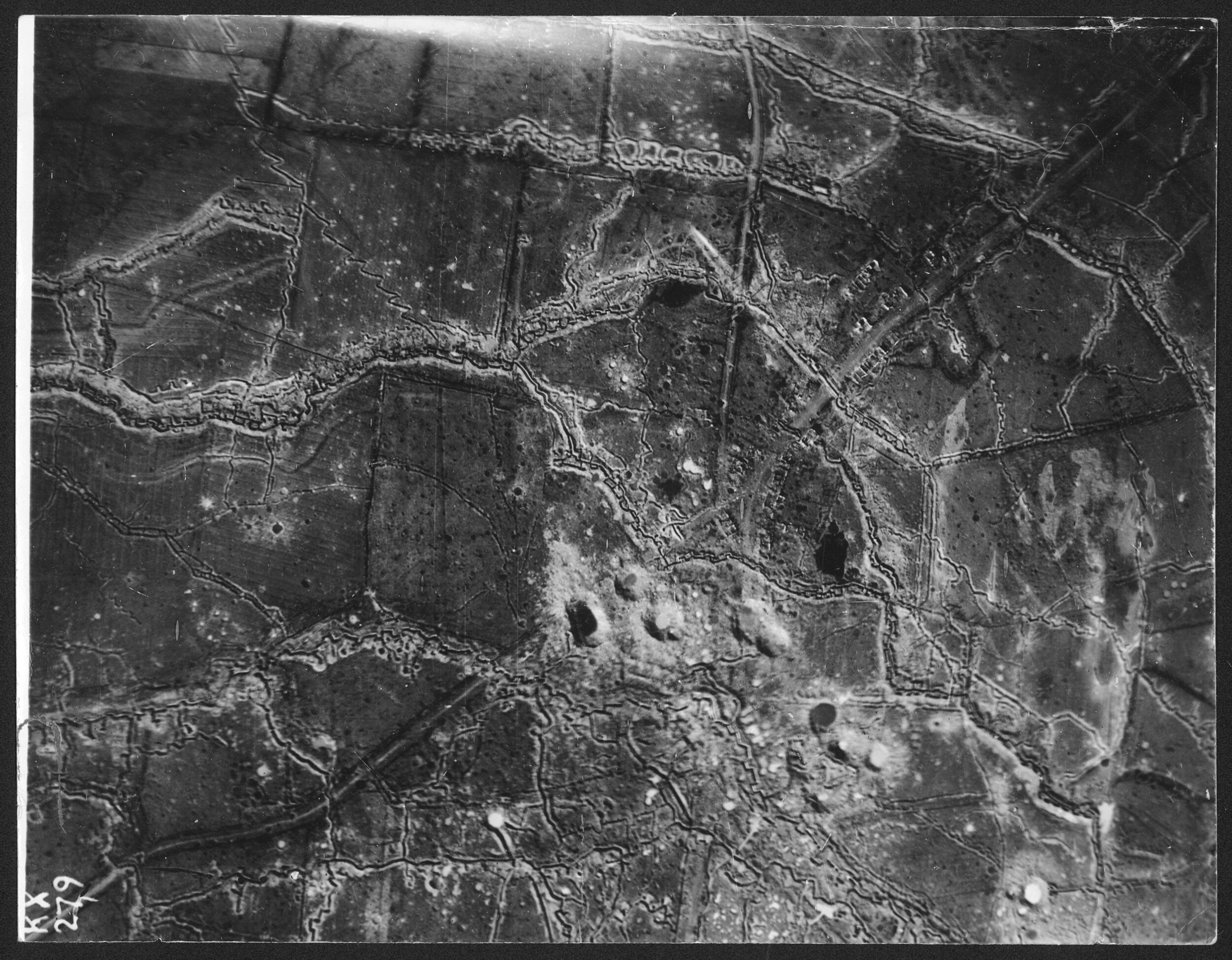 Aerial photograph, St Eloi, near Ypres, Belgium, 12 March 1916. This aerial photograph shows trench lines and shell damage in the area around St Eloi, near the Ypres salient. Trench lines can be seen as long, indented lines outlined by the lighter colour of the up cast earth. Communications trenches run between the lines. Shell holes and mine craters form starburst patterns. The importance of aerial photographs is clear in Field Marshal (Earl) Haig's dispatches of 19 May 1916, 'In the air there is seldom a day, however bad the weather, when aircraft are not busy reconnoitring, photographing, and observing fire. ' [Original reads: 'Photograph No KX.279 / Date taken 12/3/16 / Sheet 28 / Area 0 / Chief features shown:- CrossRaods [sic] at St Eloi. LONG FOCUS GERMAN LENS. 12" / Height 7500'. On the back of the photograph is written 'SCALE 20000' and 'TAKEN BY NO 5 SQUAD.']